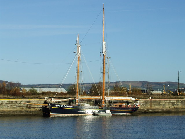 Spirit of Fairbridge berthed at Greenock